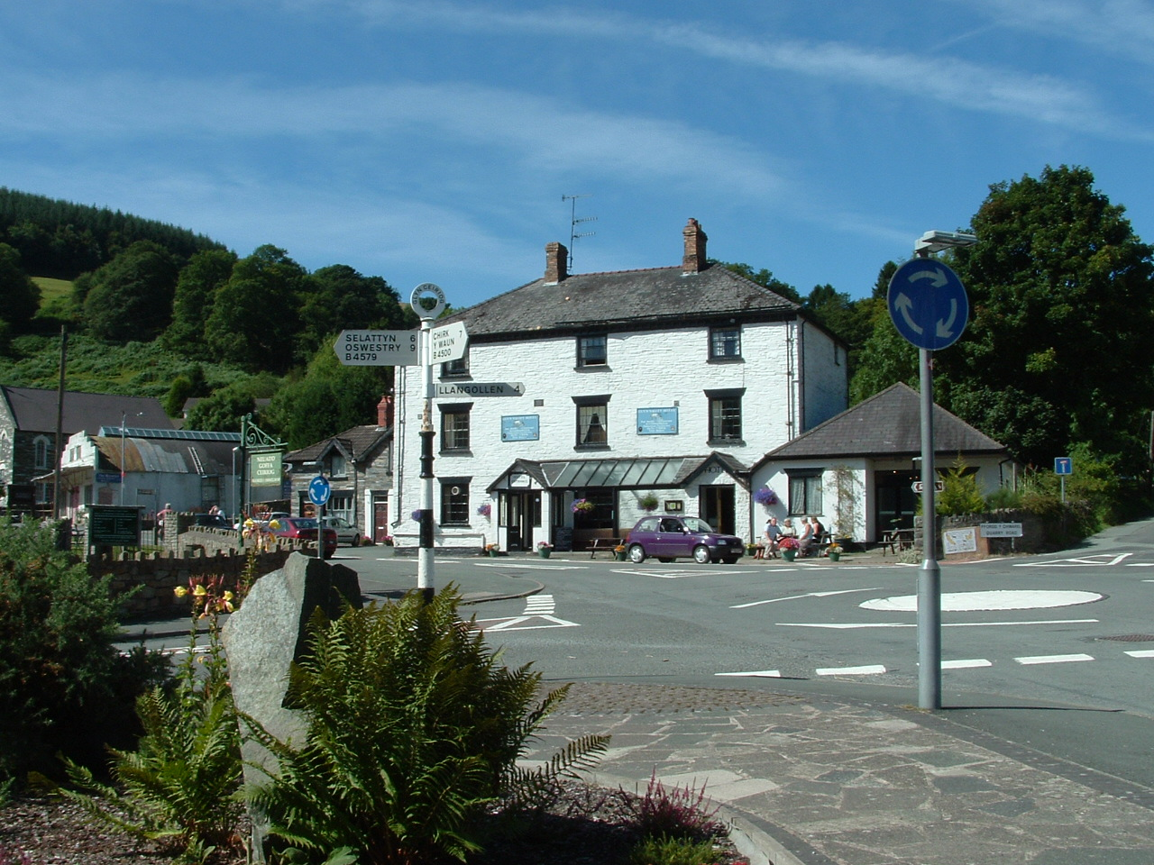 Looking towards the Glyn Valley Hotel